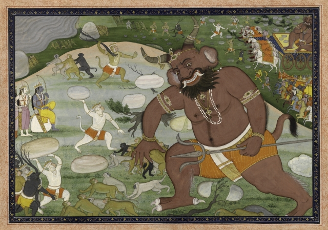 Unknown; Kangra School Indian Scene from the Ramayana (the battle between Hanuman and Kumbhakarna) ca. 1810-1820; Mughal period Drawing Gouache on paper unframed: 25.4 x 35 cm MH 1981.6 Purchase with the John Martyn Warbeke Fund Two figures at left (Lakshmana and Rama) watch the battle between Hanuman (the white monkey) and the giant demon Kumbhakarna; a second partial scene of the battle takes place in the upper right corner of the composition.